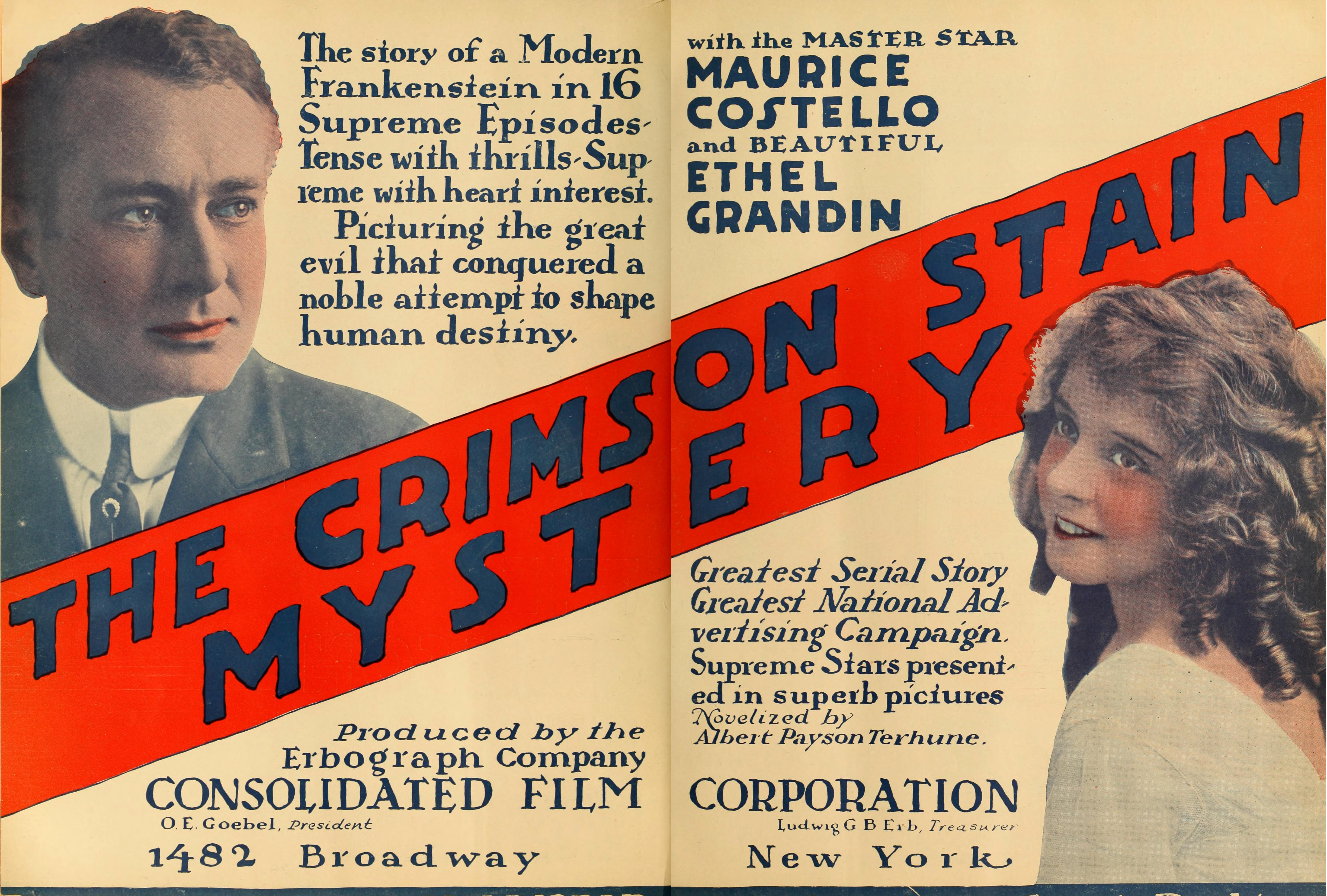 Advertisement in The Moving Picture World for the American film serial The Crimson Stain Mystery (1916).